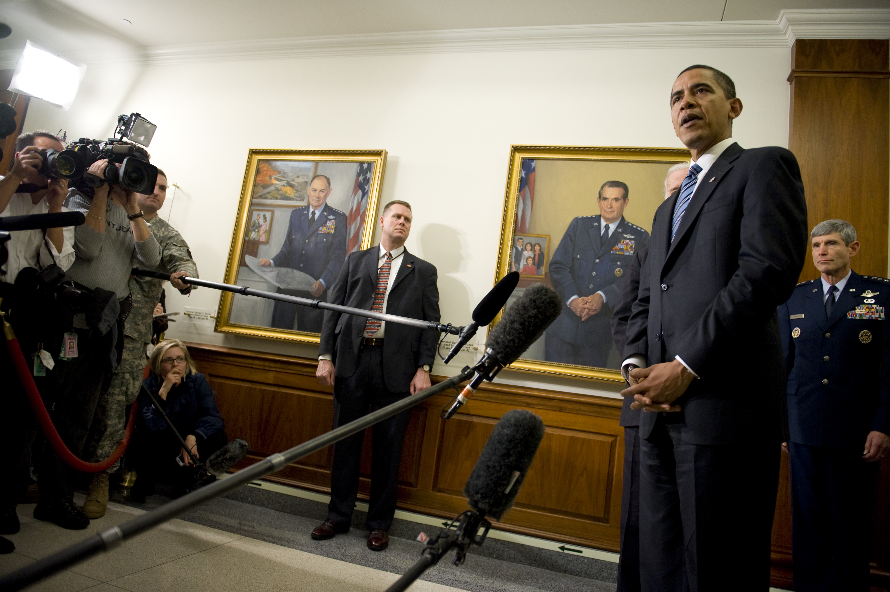 President of the United States Barack Obama speaks to the media Jan. 28, 2008, during his first visit to the Pentagon as president. Obama and Vice President Joe Biden met with the Joint Chiefs to listen to their views on Afghanistan and Iraq. VIRIN: 090128-N-0696M-189